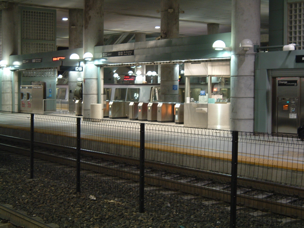 Picture of the island platform at the Millbrae Station, taken from the southbound Caltrain platform